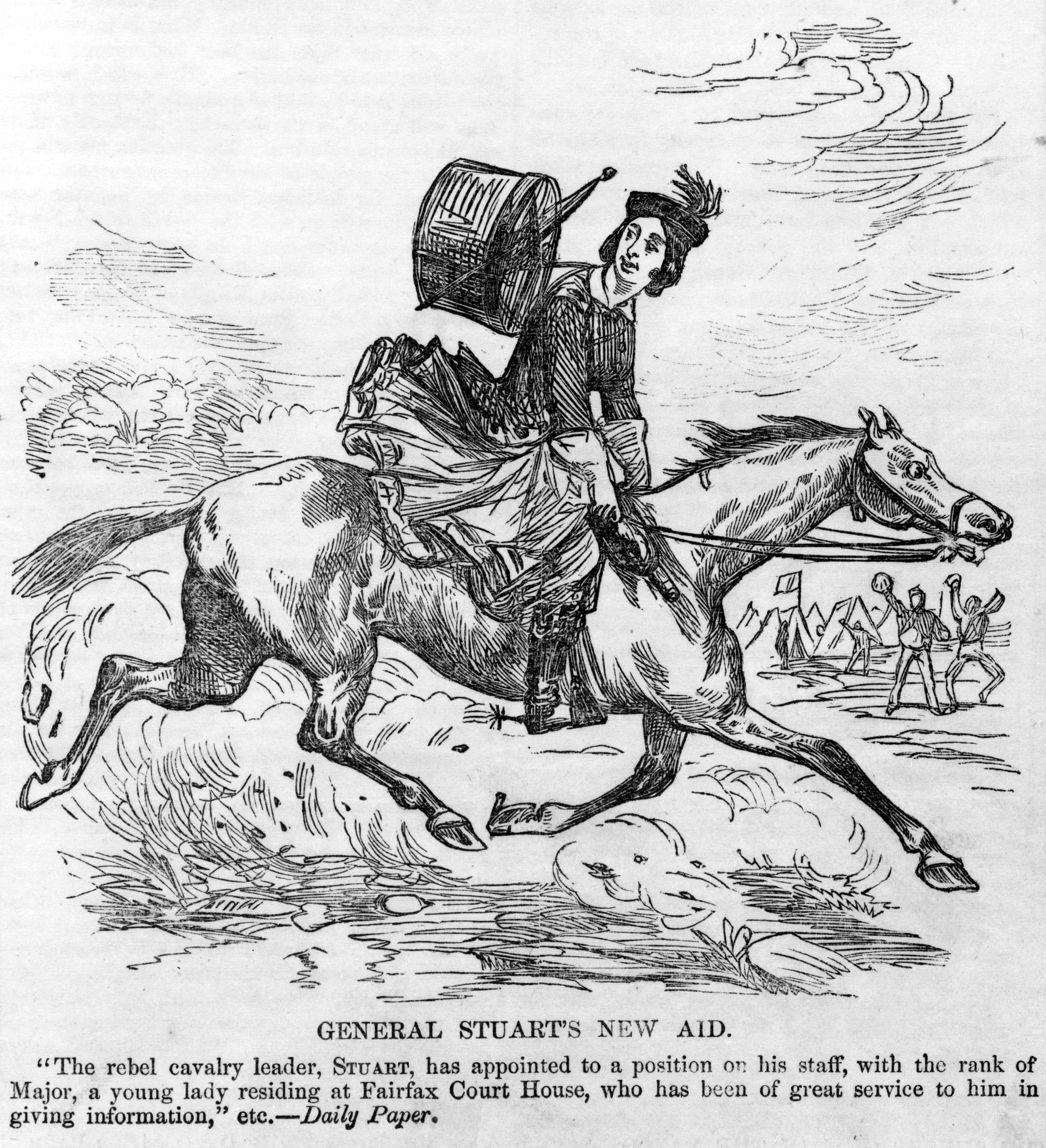 Title: General Stuart's new aid Abstract/medium: 1 print : wood engraving.